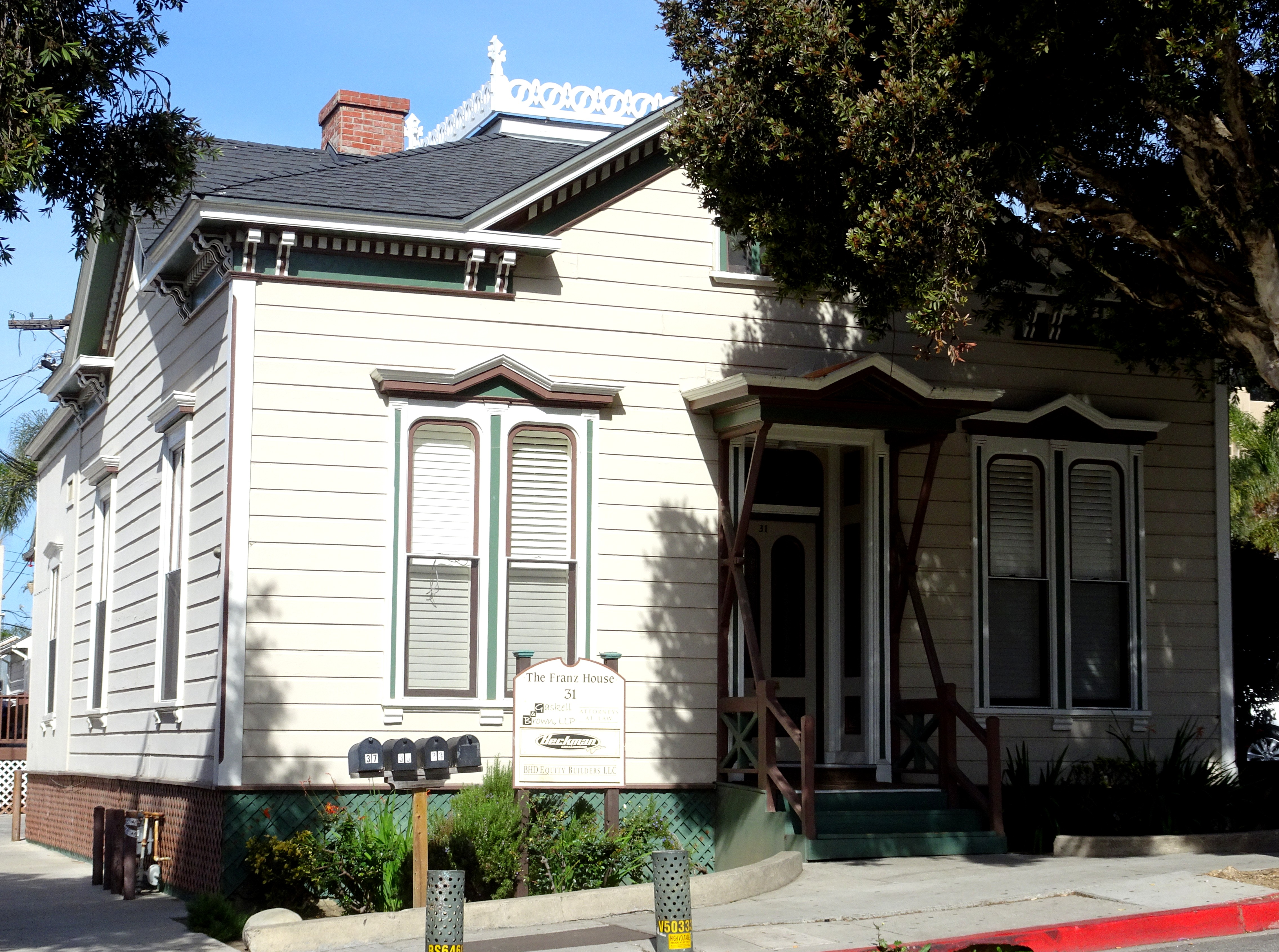 Emmanuel Franz House, 31 N. Oak Street, Ventura, California (Ventura Historic Landmark No. 21)